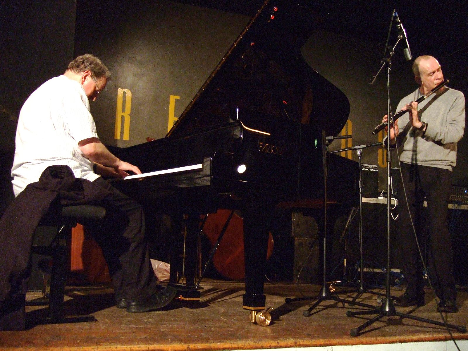 Neil Metcalfe Steve Beresford